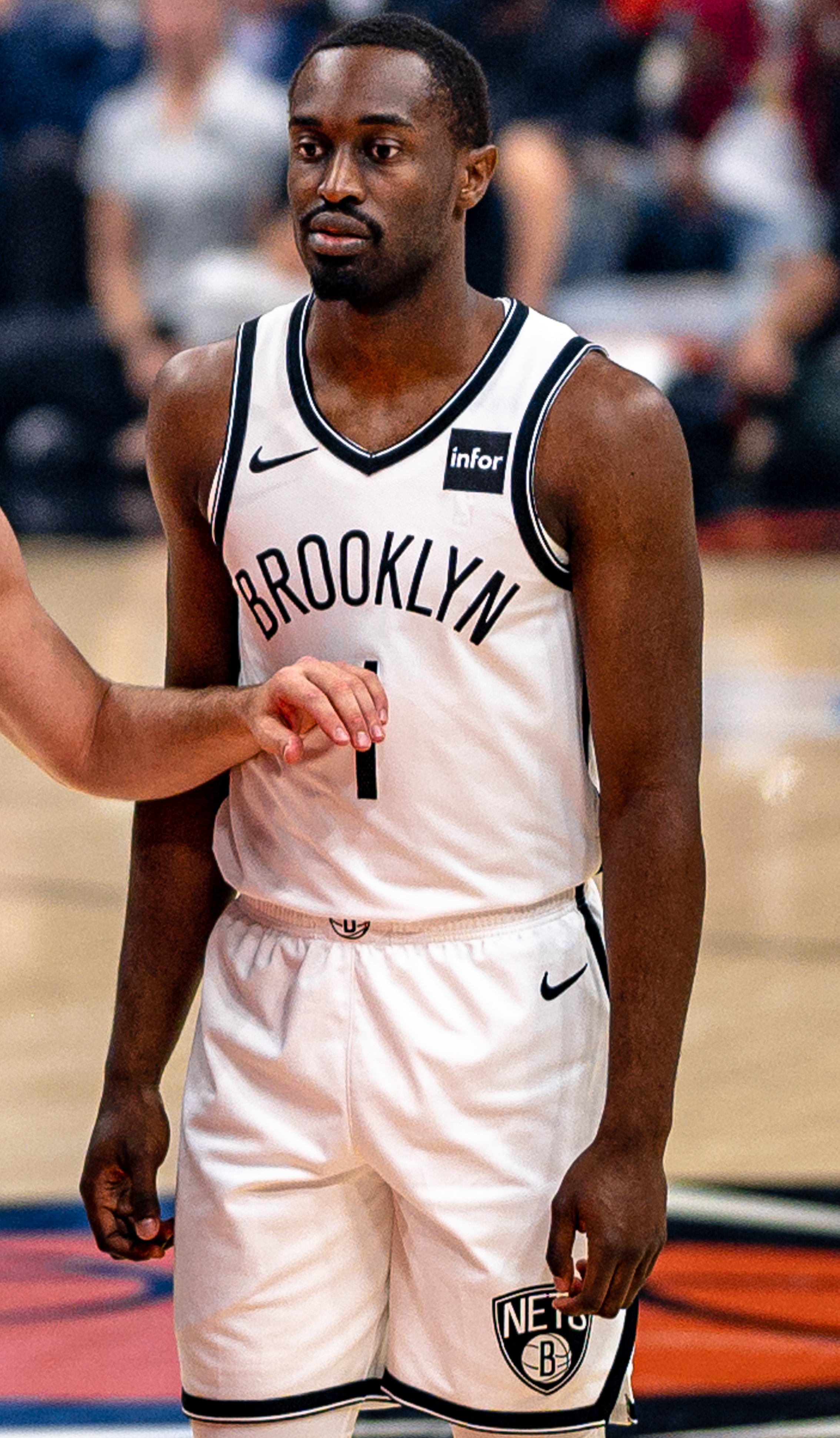 Matthew Dellavedova of the Cleveland Cavaliers defends Theo Pinson of the Brooklyn Nets during a 2019 game at Rocket Mortgage FieldHouse in Cleveland.